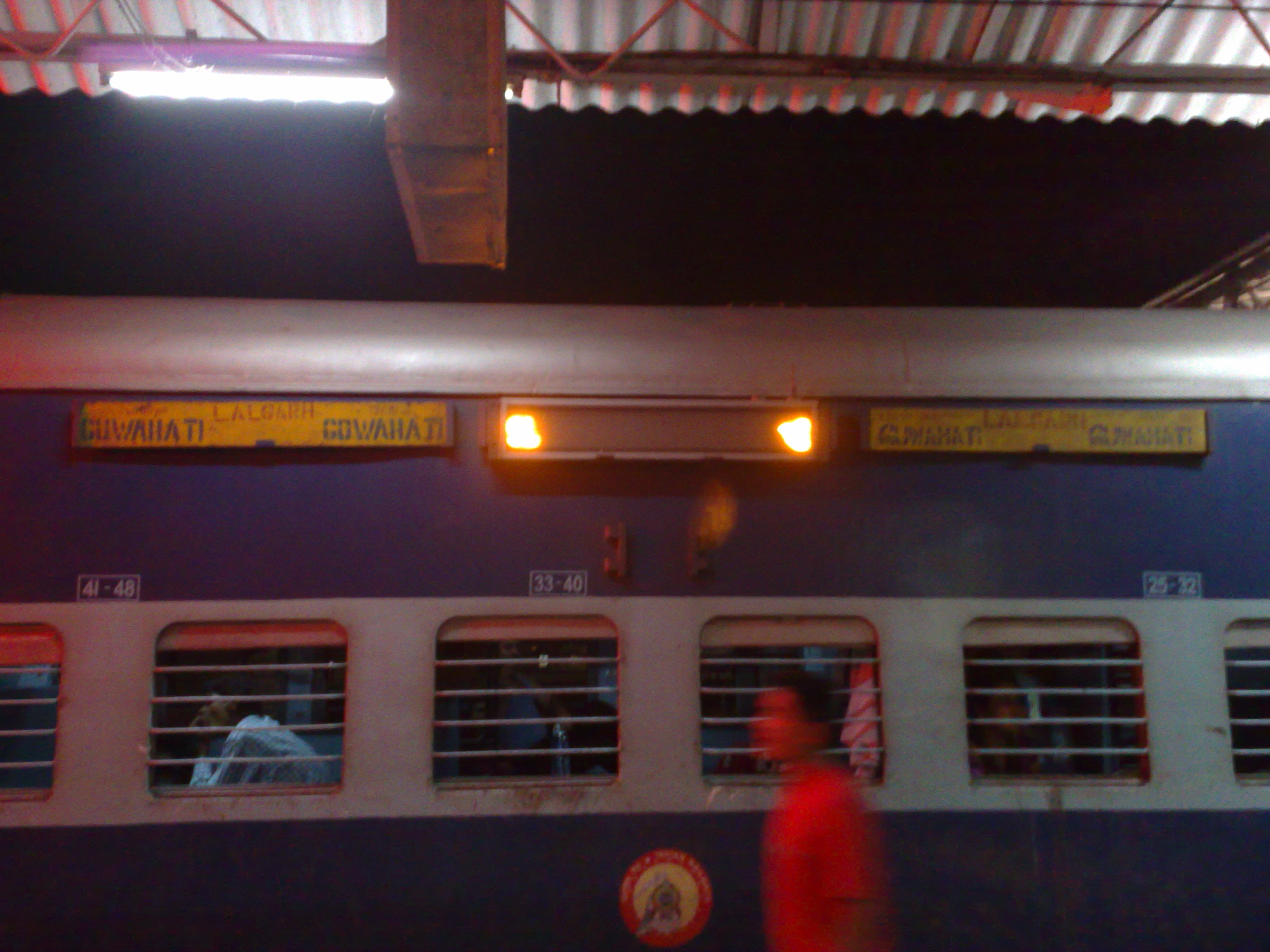 Awadh Assam Express